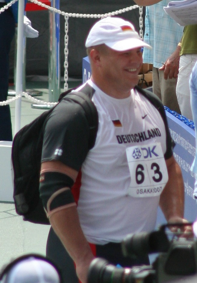 World Athletics Championships 2007 in Osaka - German shot put competitor Ralf Bartels being interviewed